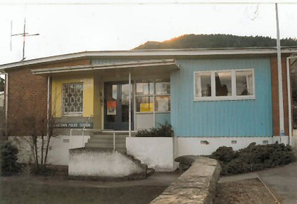 The entrance to the former police station as it appeared in 1997.